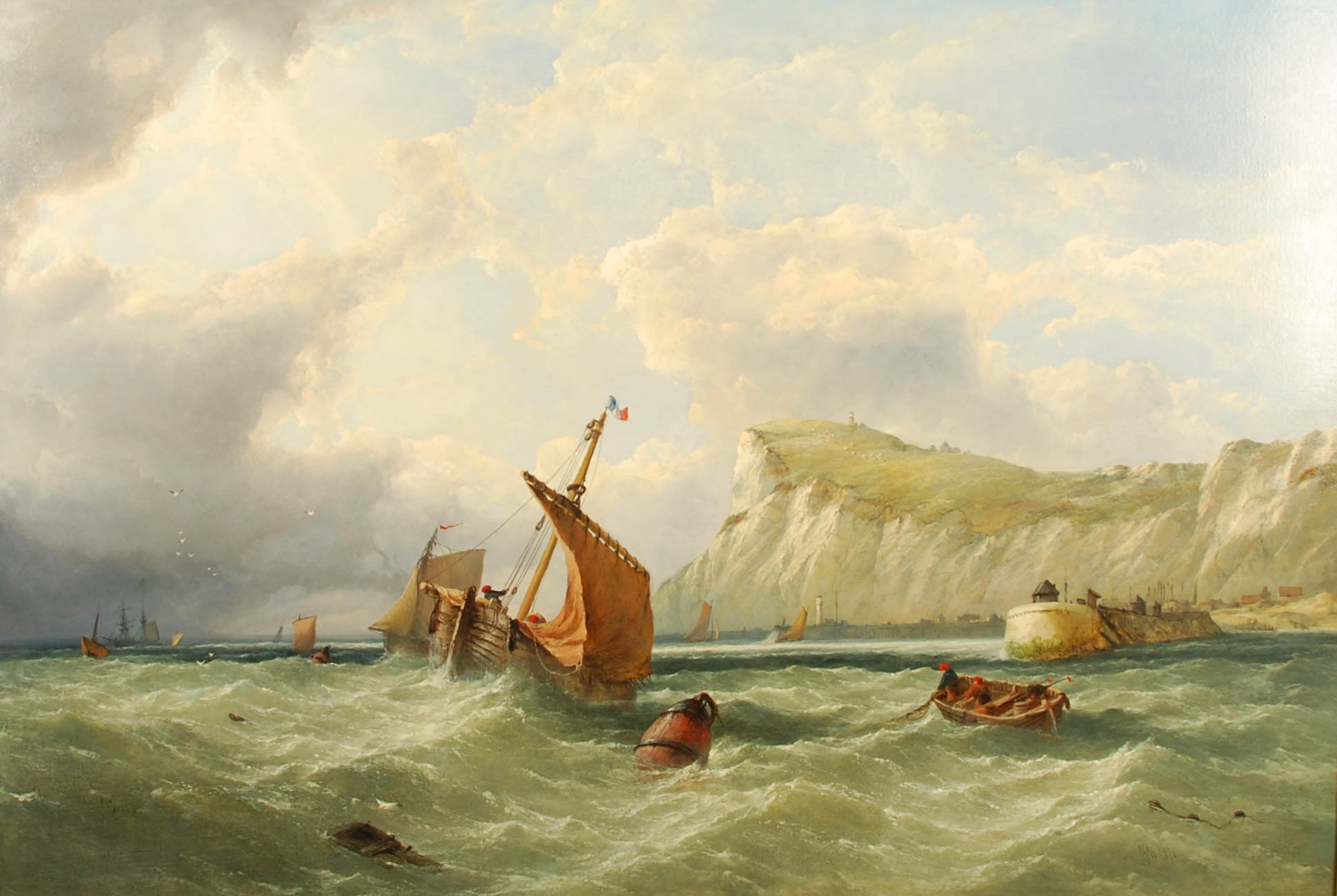 Fecamp Head, Normandy, (Sotheby's Belgravia, 8 April 1975, lot 80)" from p. 14 of British canvas, stretcher and panel suppliers’ marks.Part 5,E to N, National Portrait Gallery